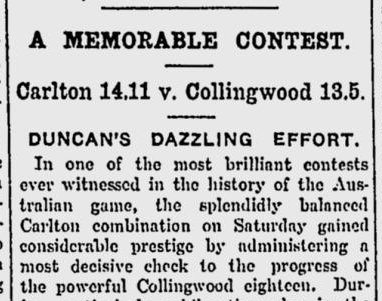 Part of a press report of the extraordinary performance of Carlton Fooballer Alex Duncan in the match between the Carlton and Collingwood Football Clubs at Victoria Park on Saturday, 25 June 1927.